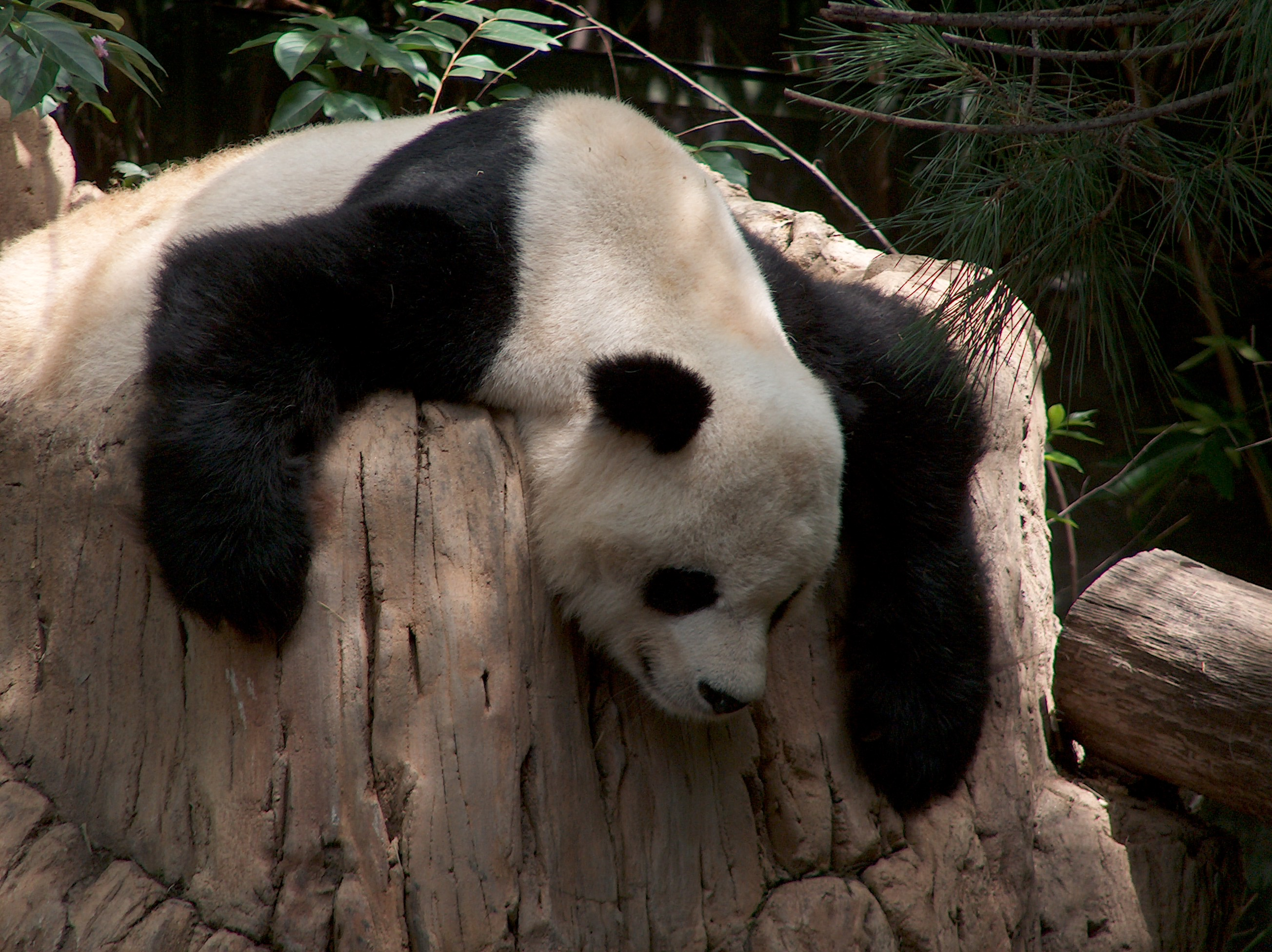 Giant Panda Gao Gao at the San Diego Zoo. Photo taken by User:Mike R on 8 August, 2005.